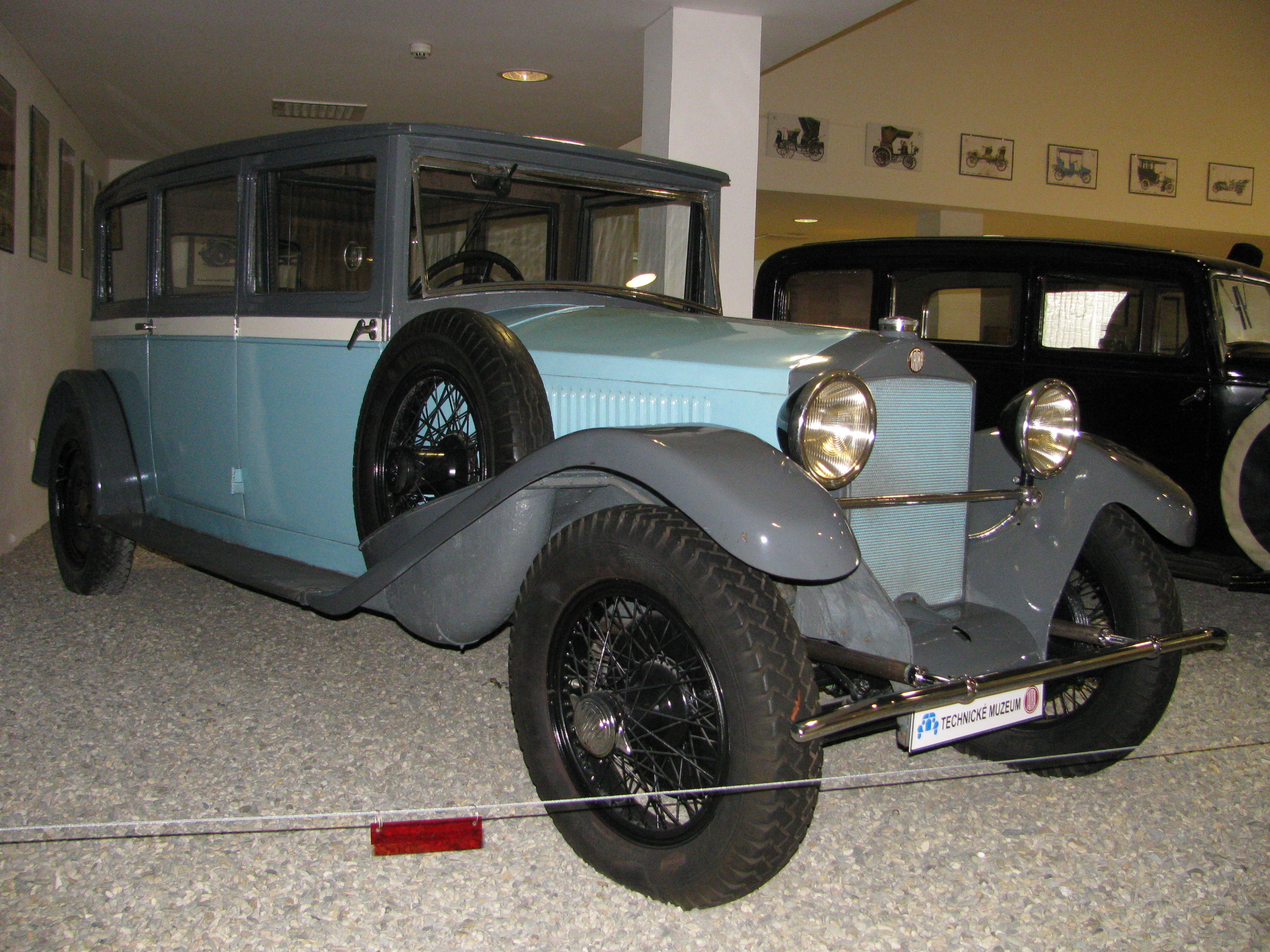 Tatra T17/31 in Tatra Technical Museum, Kopřivnice, Czech Republic.